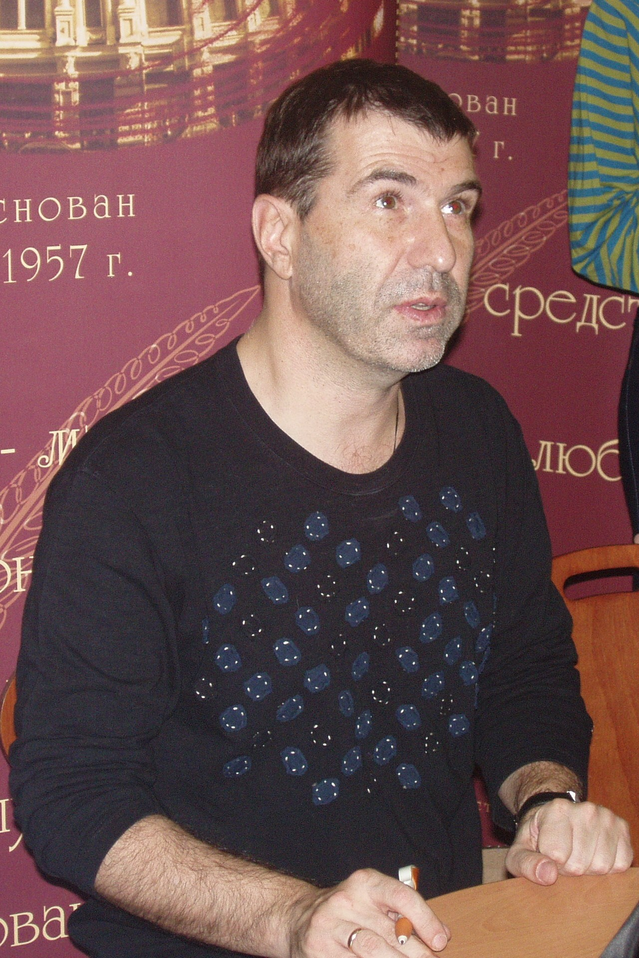 Yevgeni Grishkovetz (on presentation)